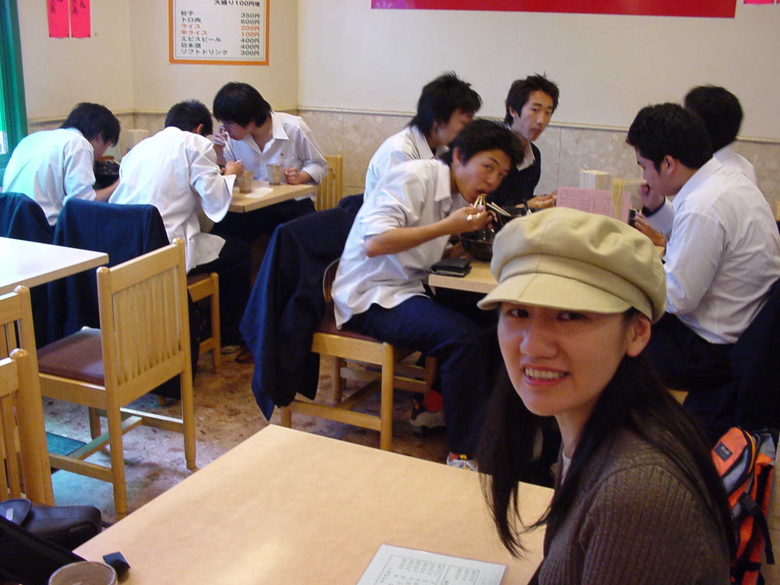 High school students eating ramen in Tokyo.